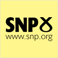 Logo of the Scottish National Party (SNP)